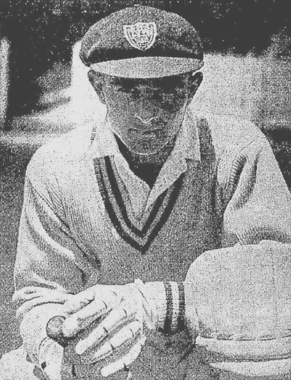 IN A CONTEMPLATIVE MOOD : Sydney Barnes, New South Wales colt.